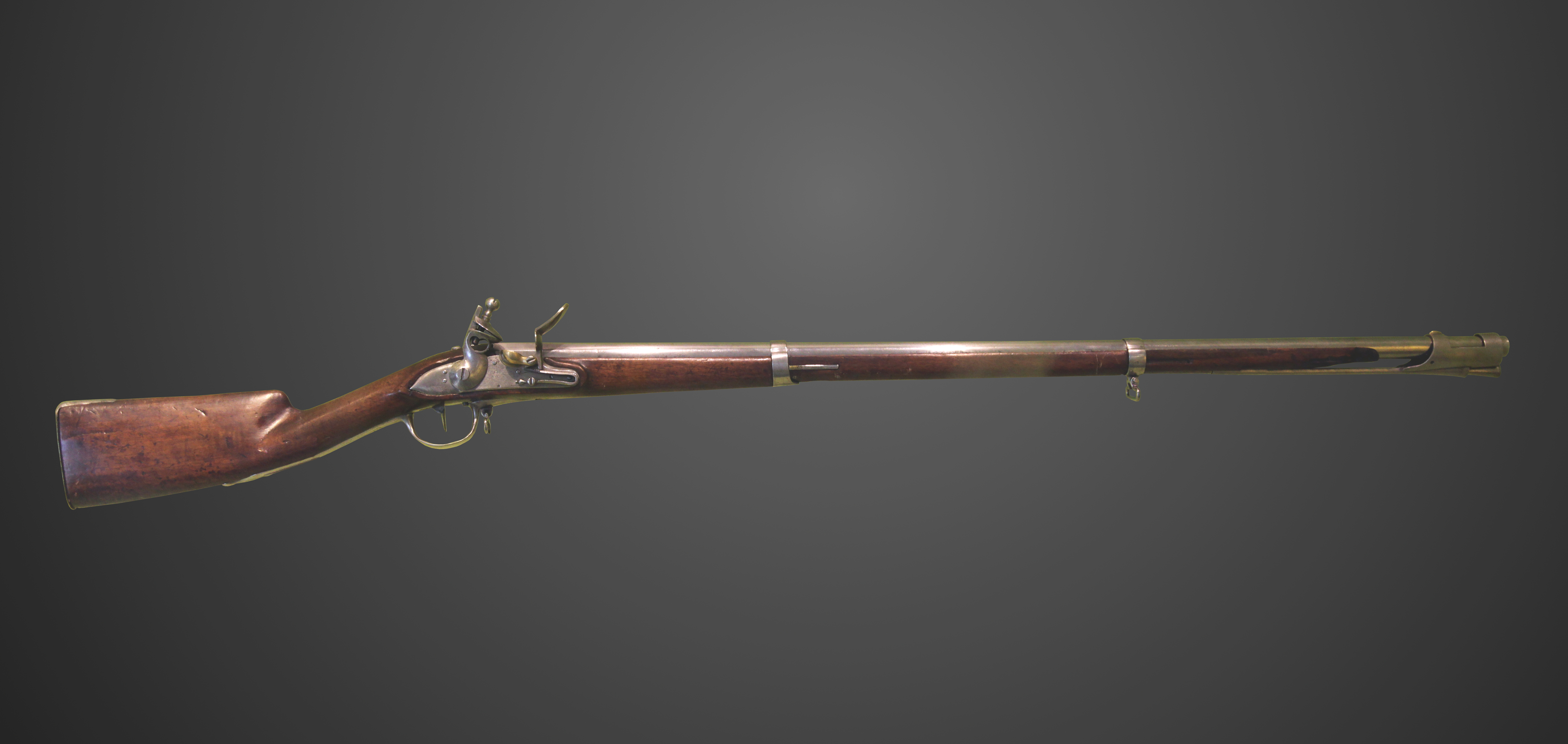 Musket Model 1777 (between 1789 and 1799) Length: 151 cm (59.4 ″); Mass: 4.5 kg (158.7 oz)